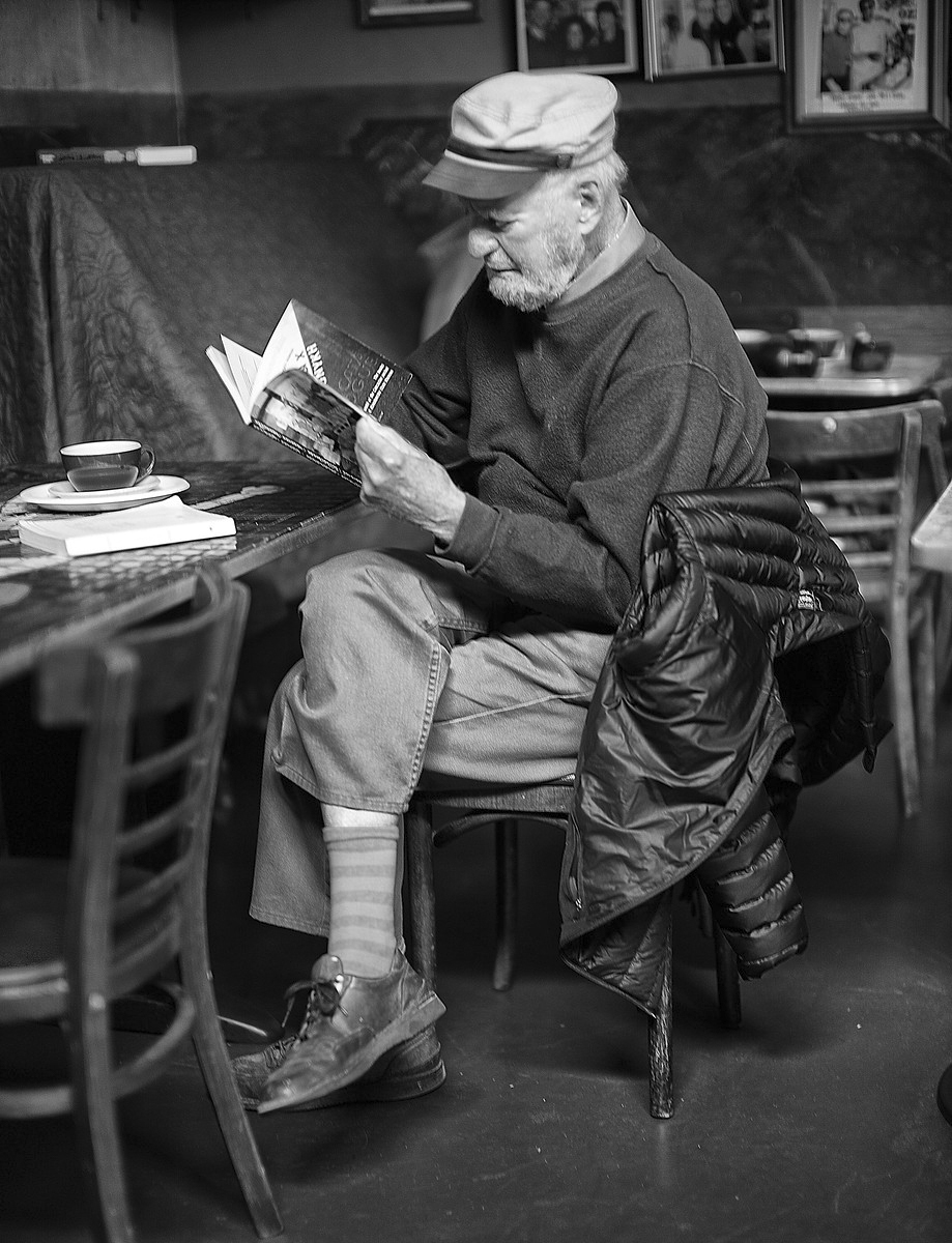 Lawrence Ferlinghetti at Caffe Trieste in 2012 by Christopher Michel.